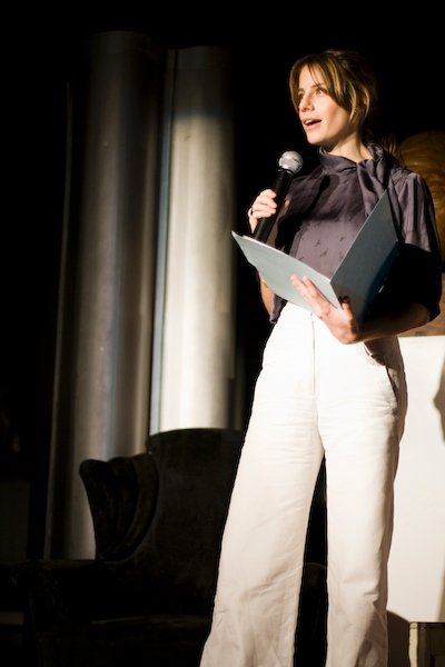 Ilana Sod hosts Pase Usted vol. Bicentenario